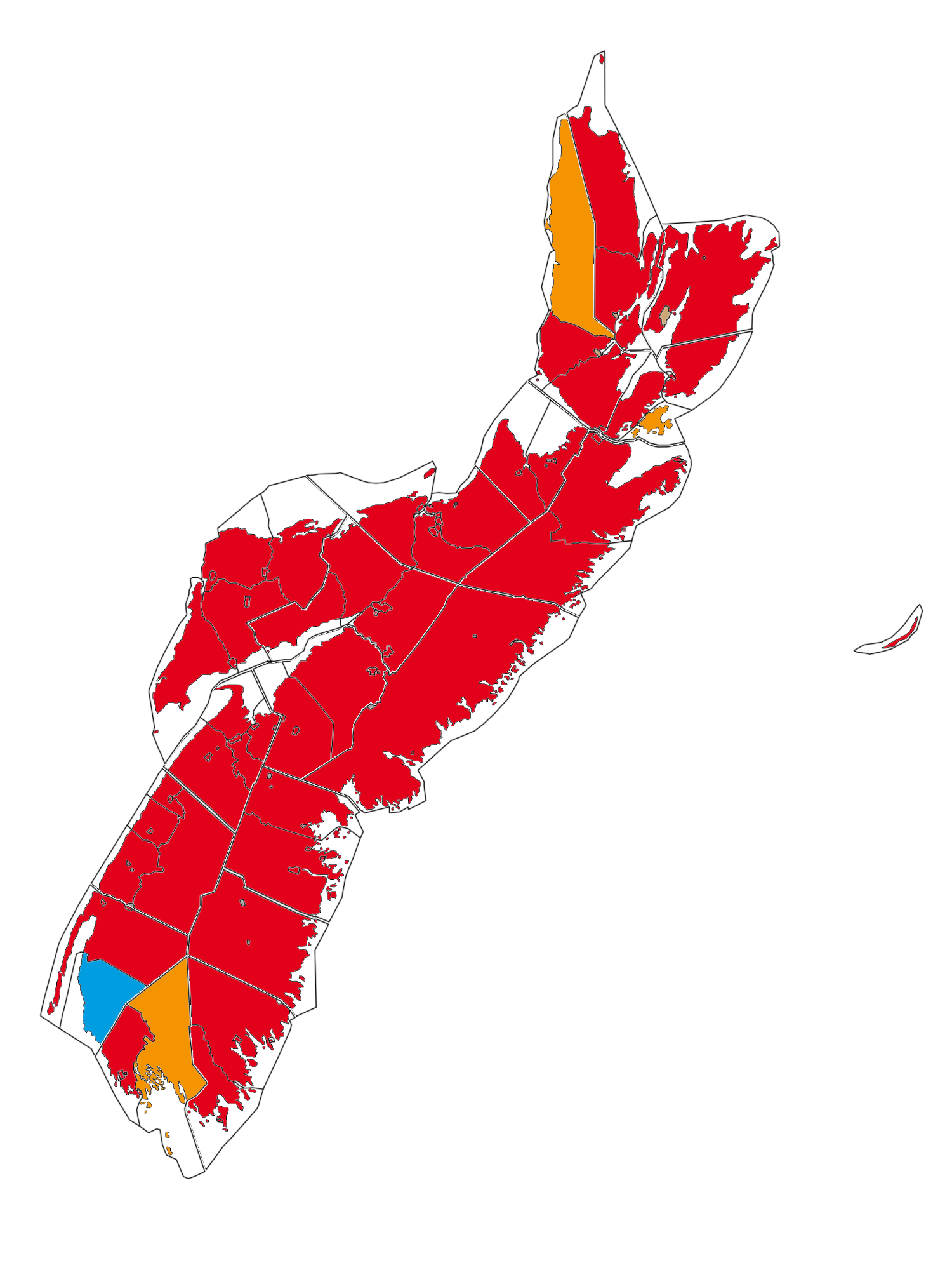 Language map of the province of Nova Scotia (reference: Statistics Canada, 2006 Census. Red - English majority, less than 33% French Orange - English majority, more than 33% French Blue - French majority, less than 33% English Green - French majority, more than 33% French Brown - Aboriginal majority Grey - No statistics available